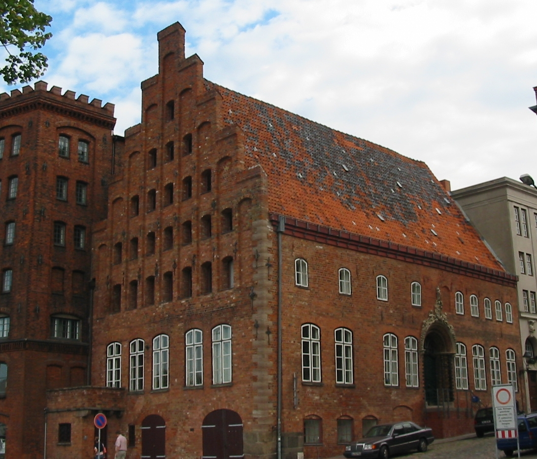 Crow-stepped gabled house in Lübeck